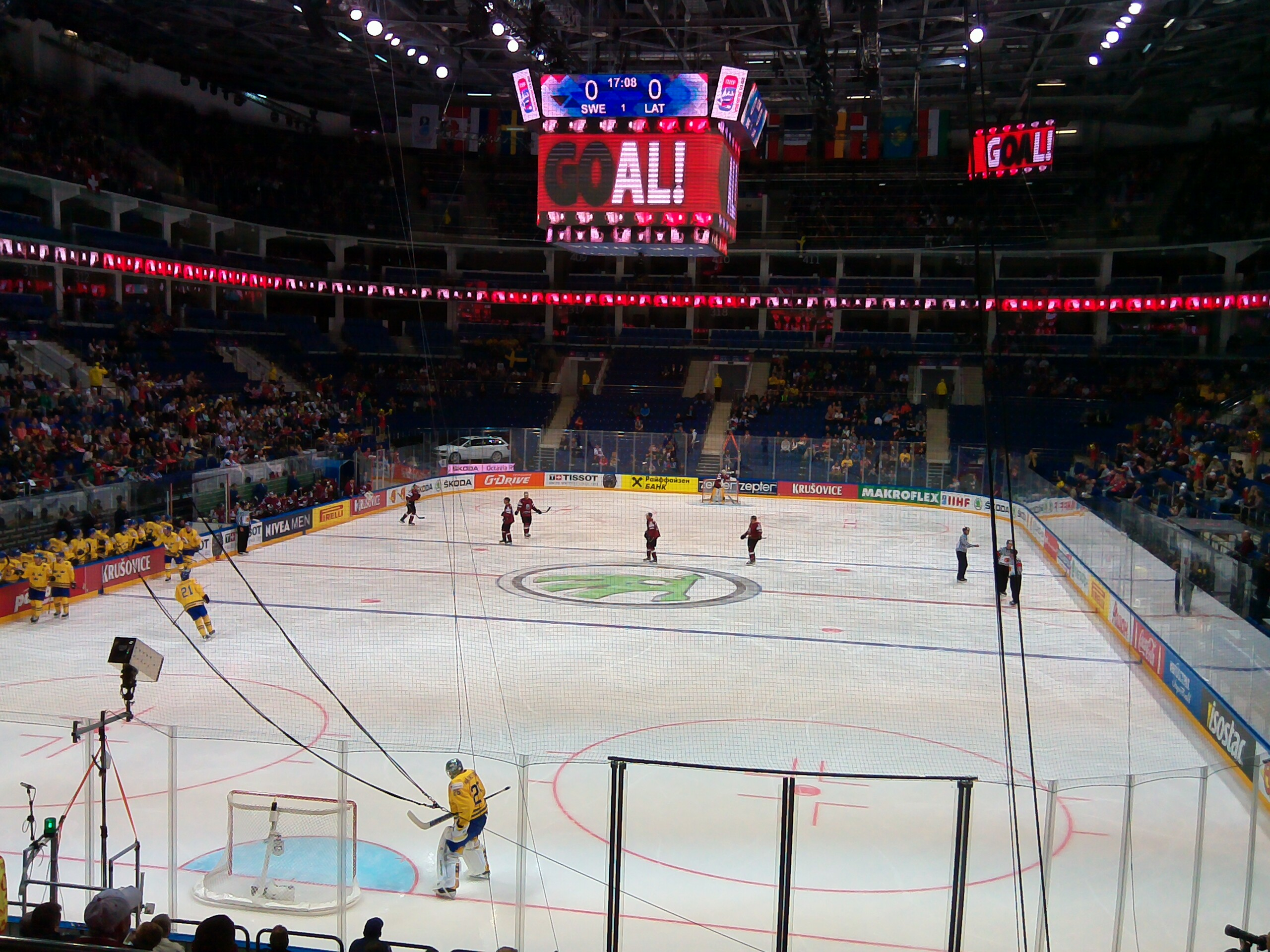 Latvia - Sweden 2016 IIHF World Championship